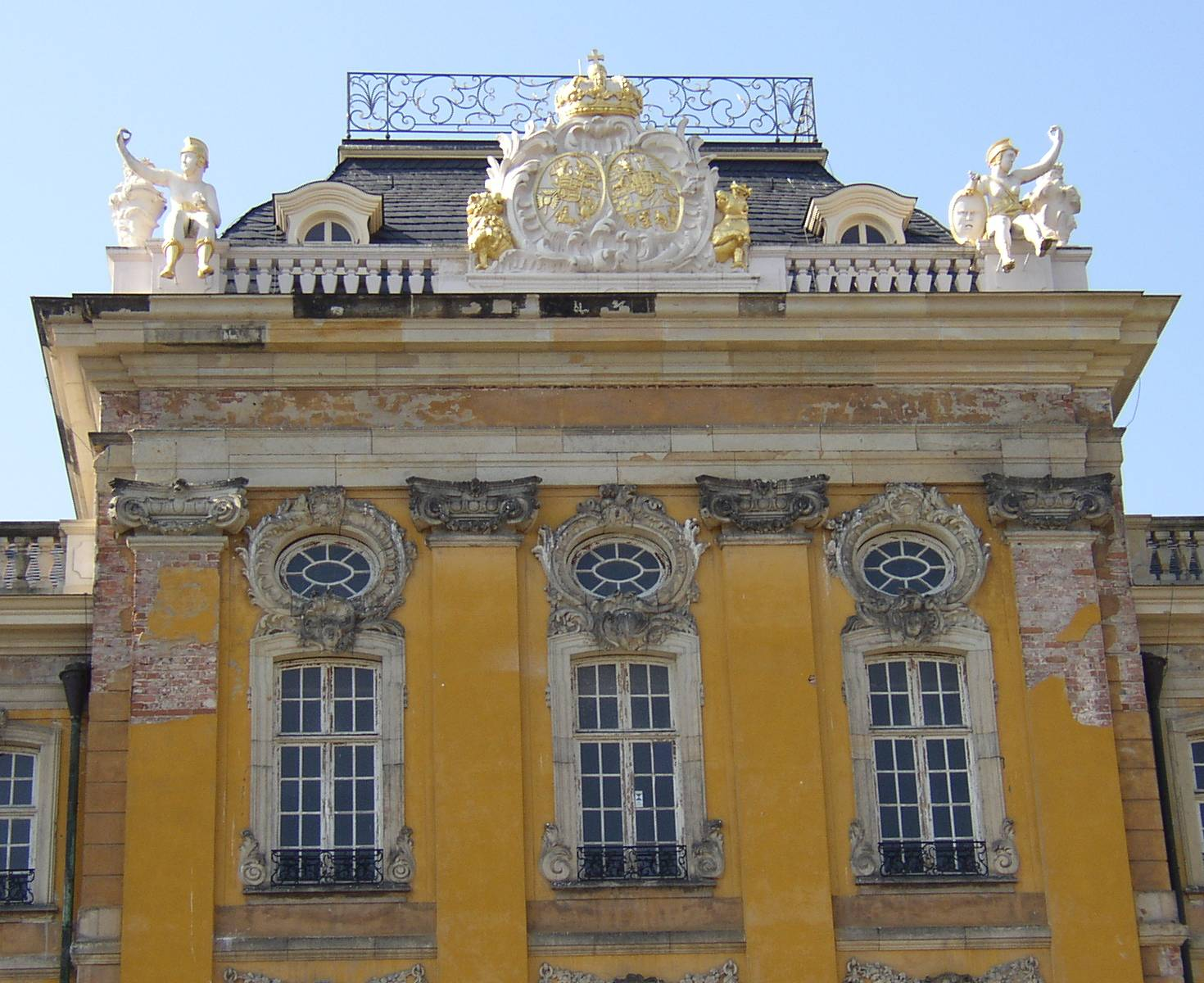 Palace in Gommern-Dornburg in Saxony-Anhalt, Germany